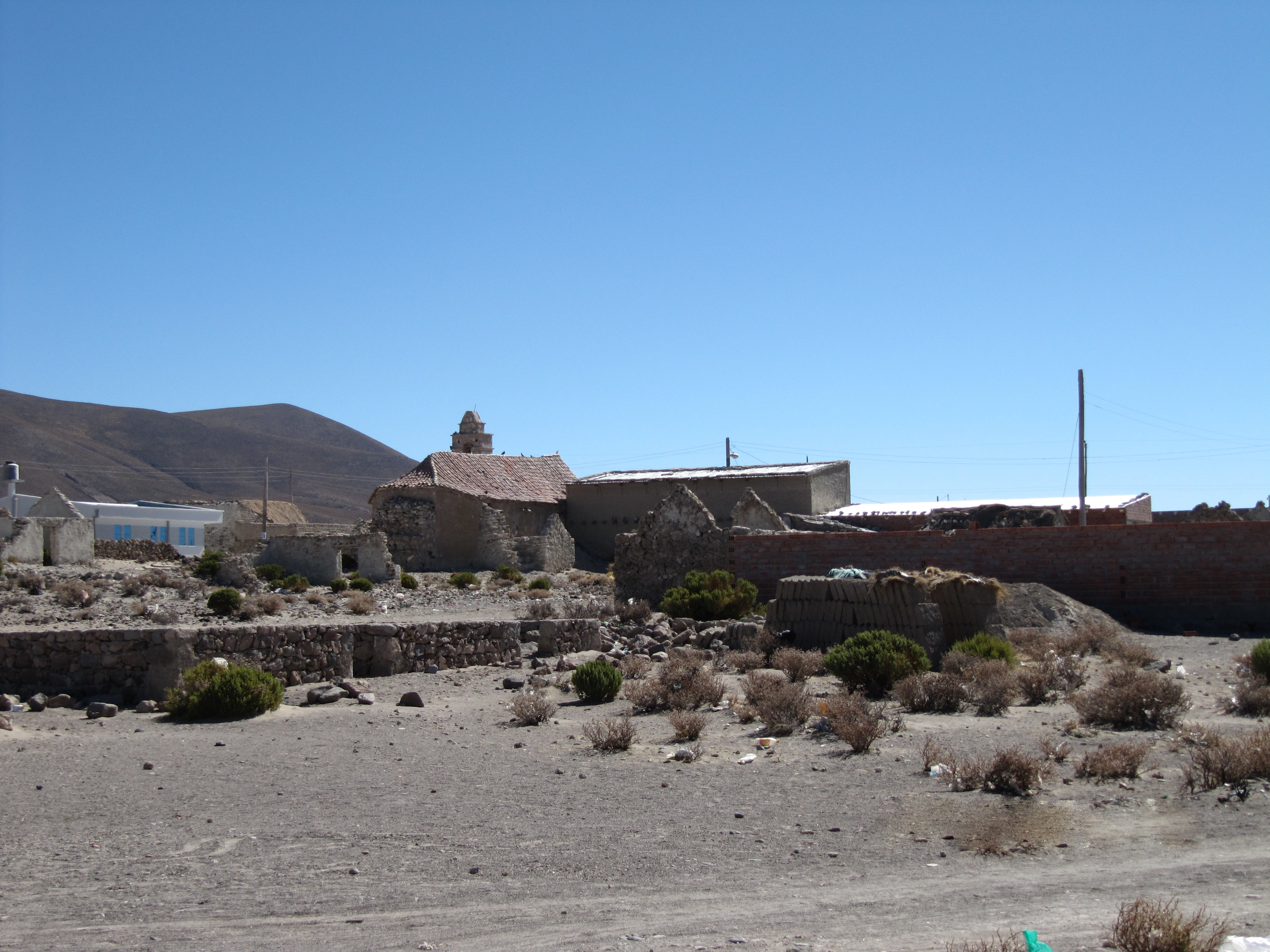 typical view of Villa Vitalina, an almost-ghost-village in Bolivia, near Sabaya